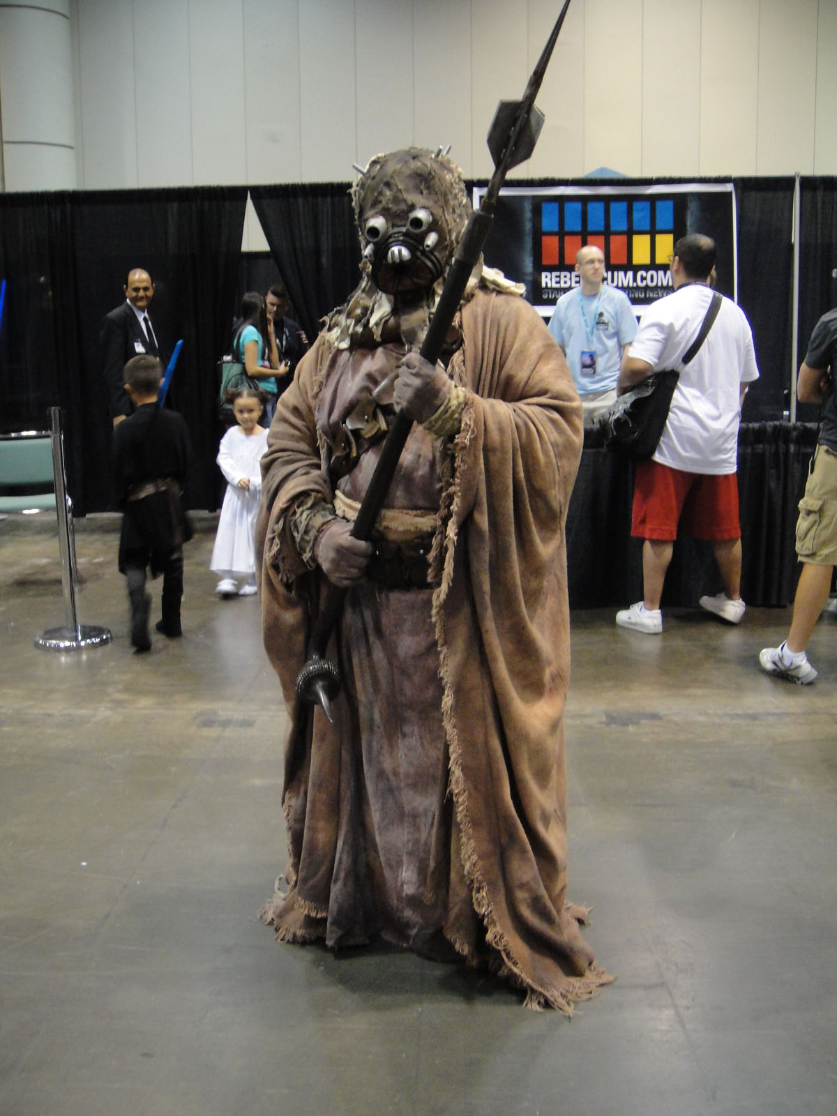 Star Wars Celebration V - Tusken Raider costume